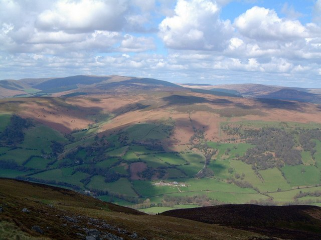 Looking NNE from the Sugar Loaf The highest point just left of centre of the image on the skyline is Grug Mawr. Forest Coal Pit lies in the valley just out of the picture on the right.